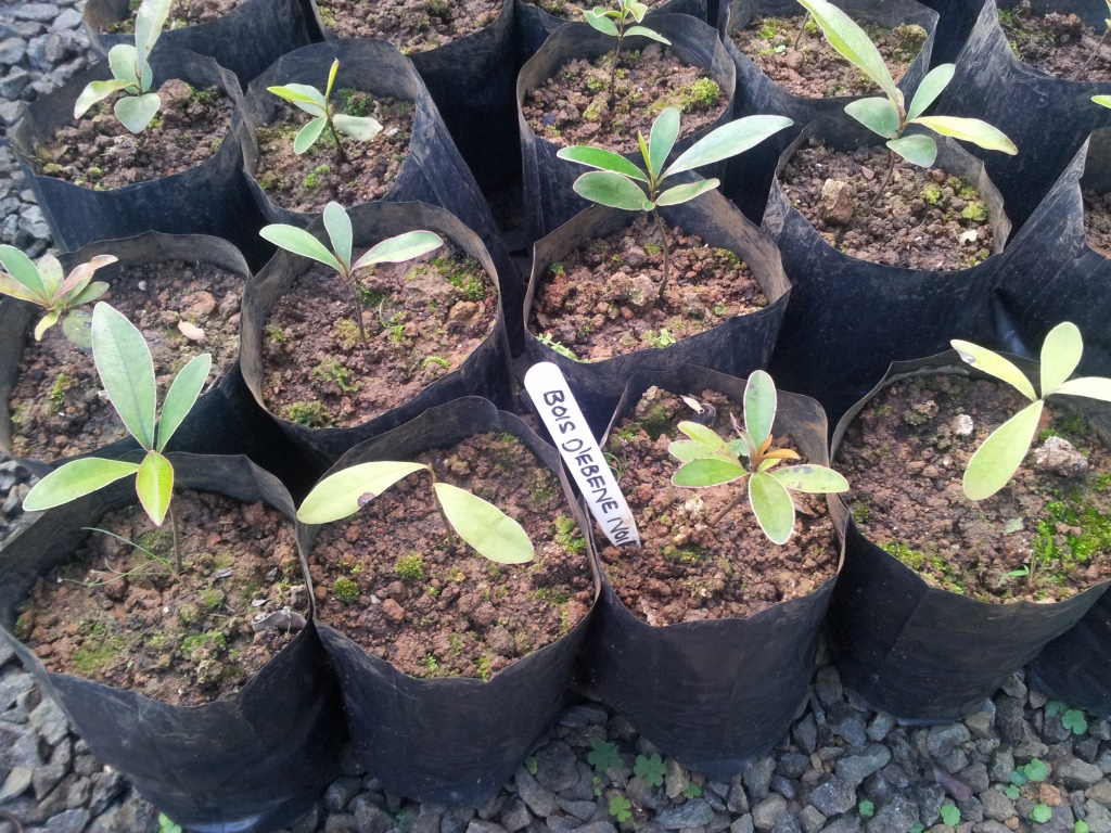 Bois d Ebene Noir - Diospyros tesselaria seedlings - Ferney nursery